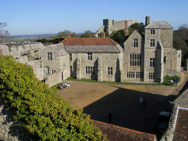 Carisbrooke Castle Carisbrooke Castle looking across to the Great Hall and Shell Keep